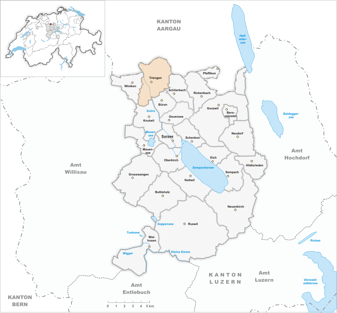 Municipality Triengen